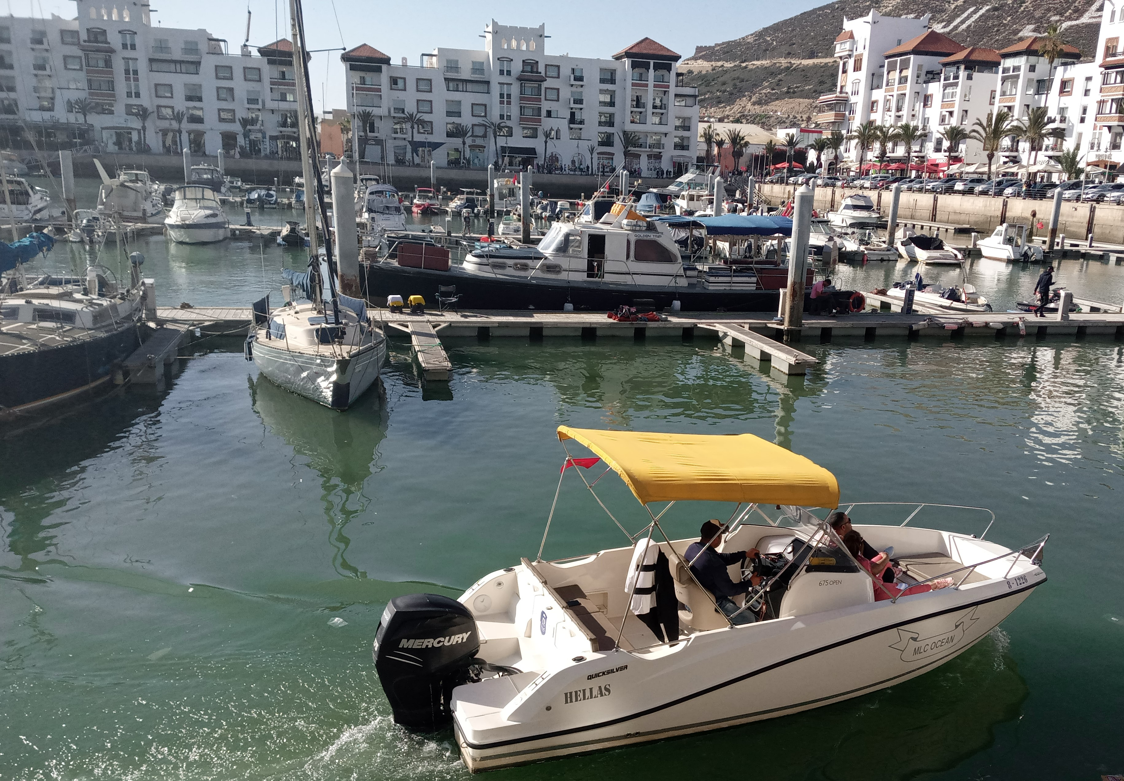 Traveling by sea 2 Agadir Morocco This is an image with the theme "Africa on the Move or Transport" from: Morocco